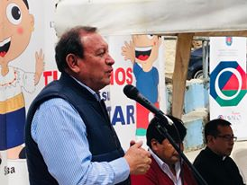 Otavalo mayor Pareja at an education equality rally in July 2018